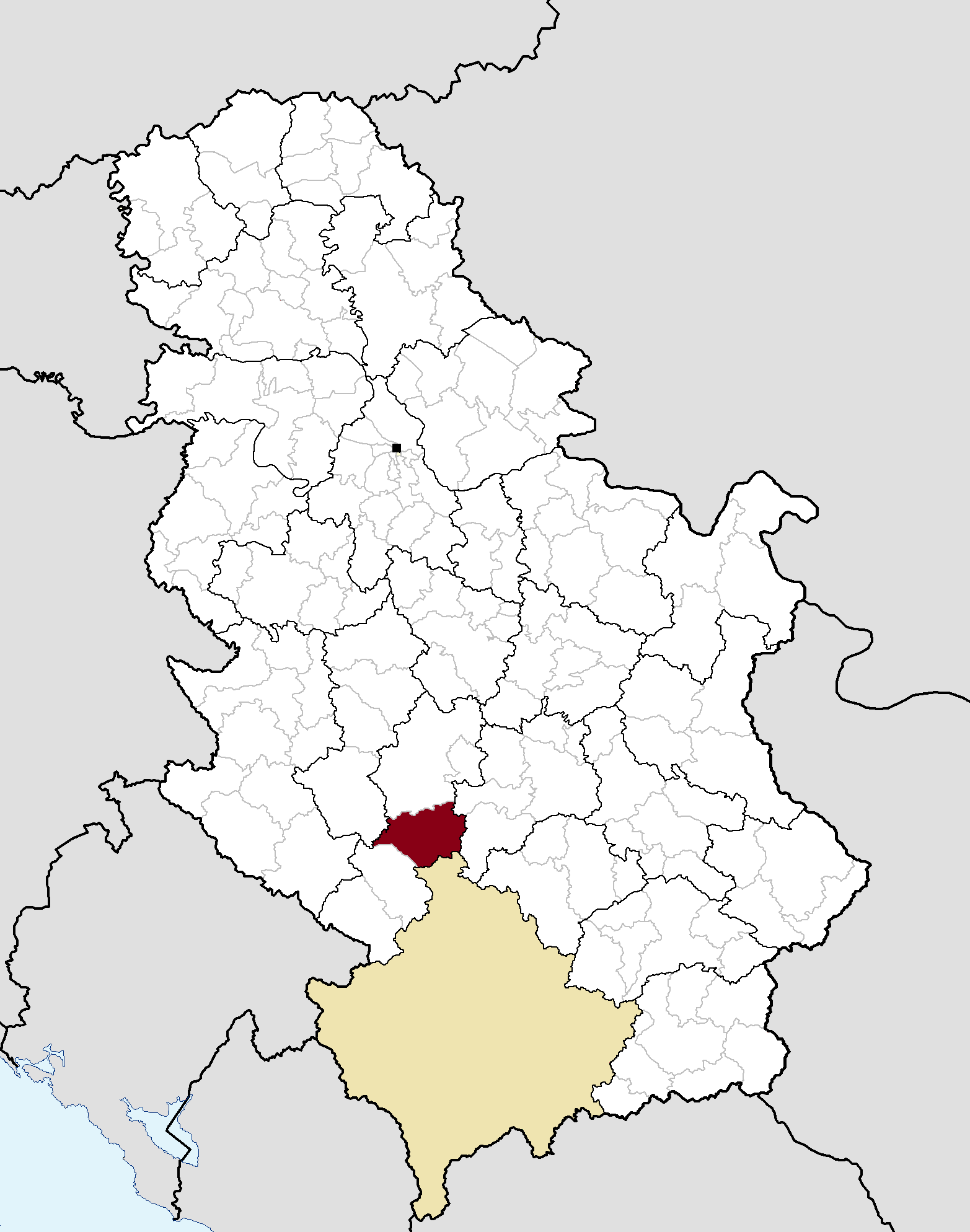 Municipal location in Serbia